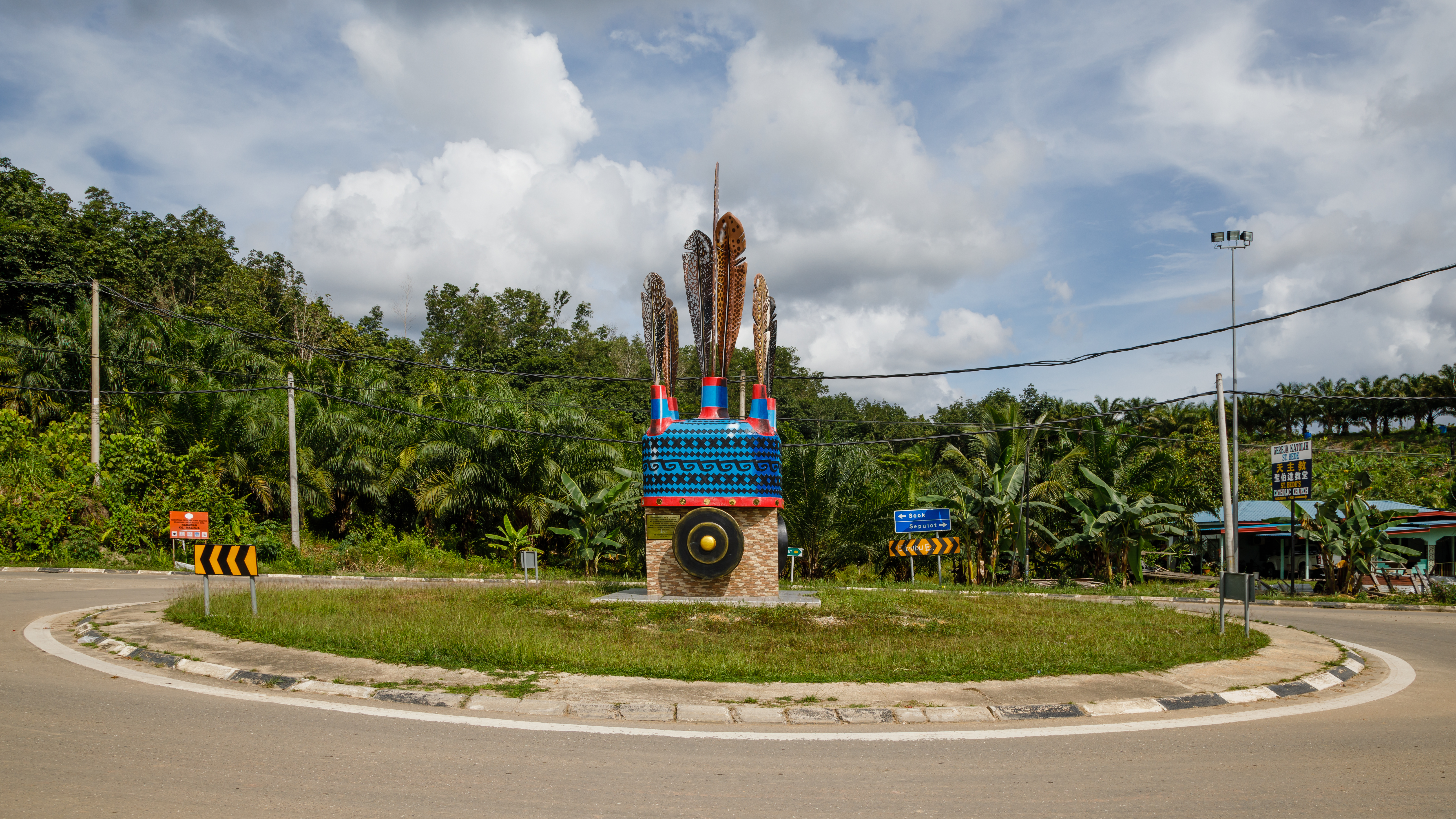 Nabawan Sabah: The "Murut Headgear Roundabout" at the junction to Nabawan